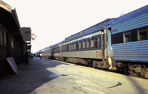 The Maple Leaf at Port Huron station in June 1970